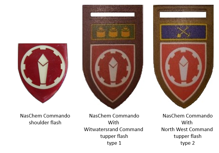 SADF era Naschem Commando insignia field and office